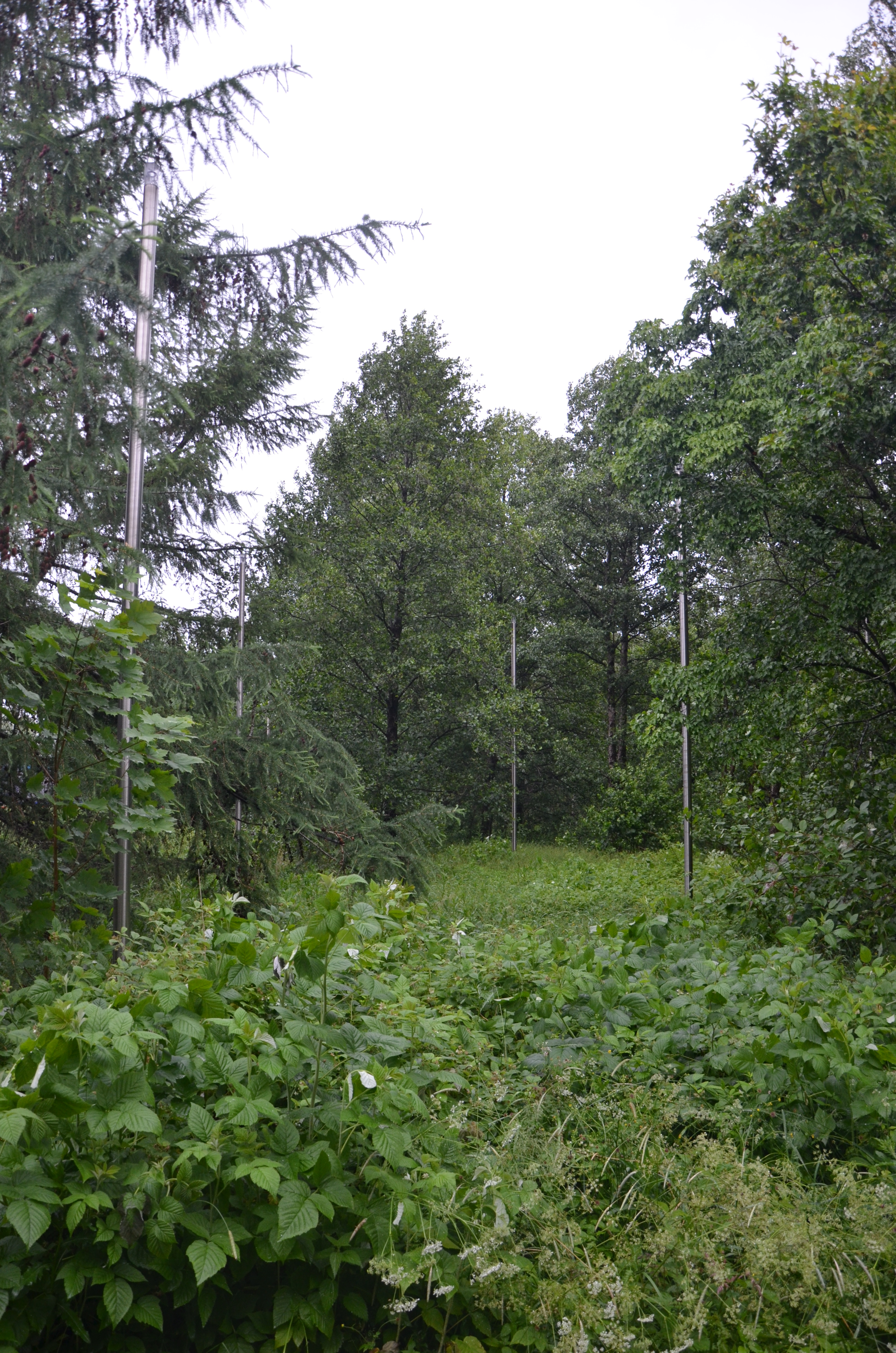 Michael Richter' s Blått ljus (Blue light), Lilla Å-promenaden, Örebro